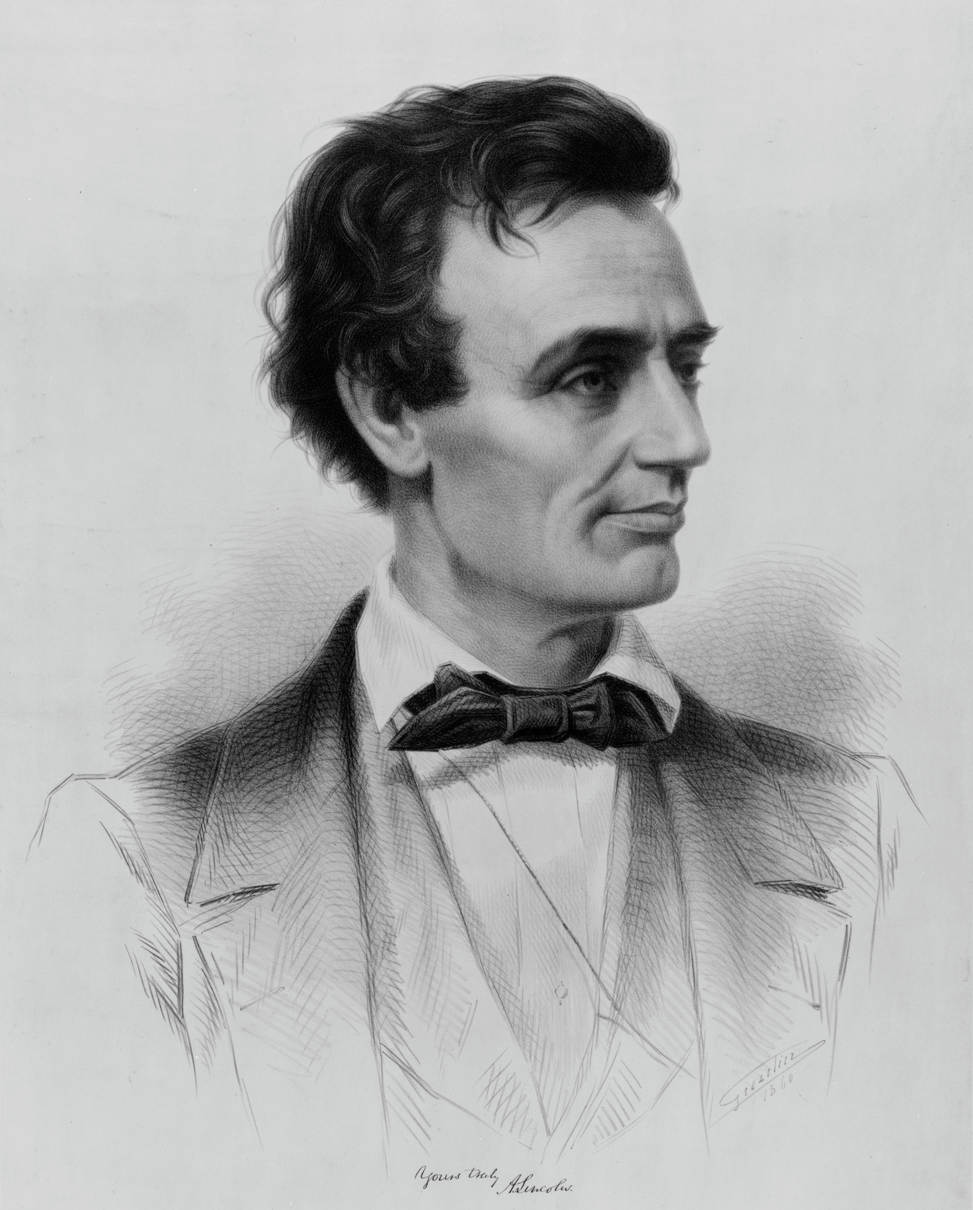 Abraham Lincoln, Republican candidate for the presidency, 1860